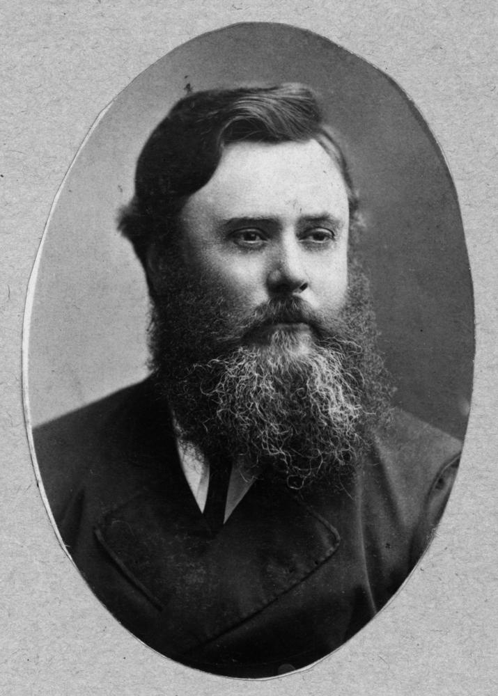 Thomas Petrie (31 January 1831 – 26 August 1910) was an Australian explorer, grazier and friend of Aboriginals.